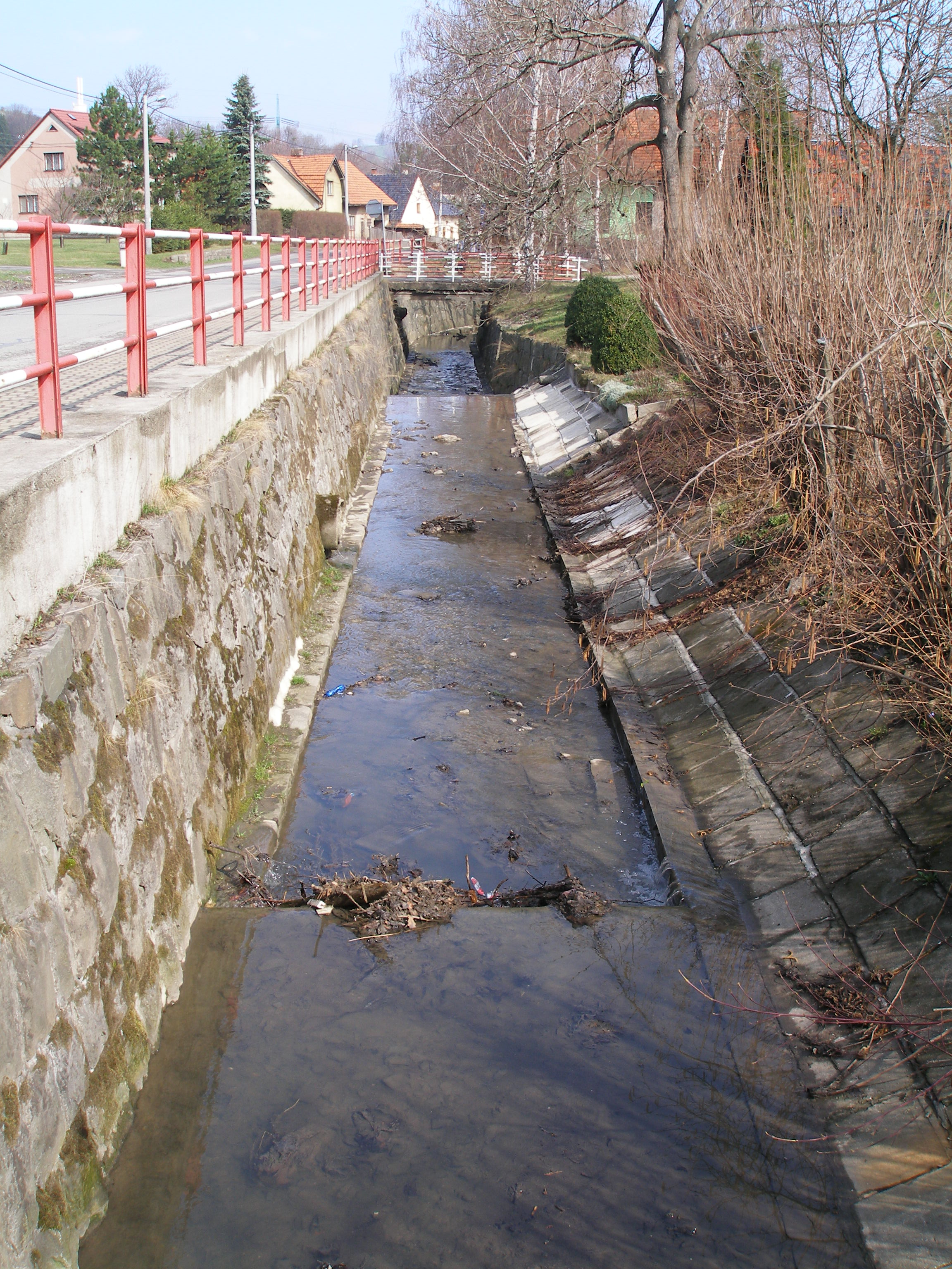 Papakův potok (Papak's stream) in Mořkov.